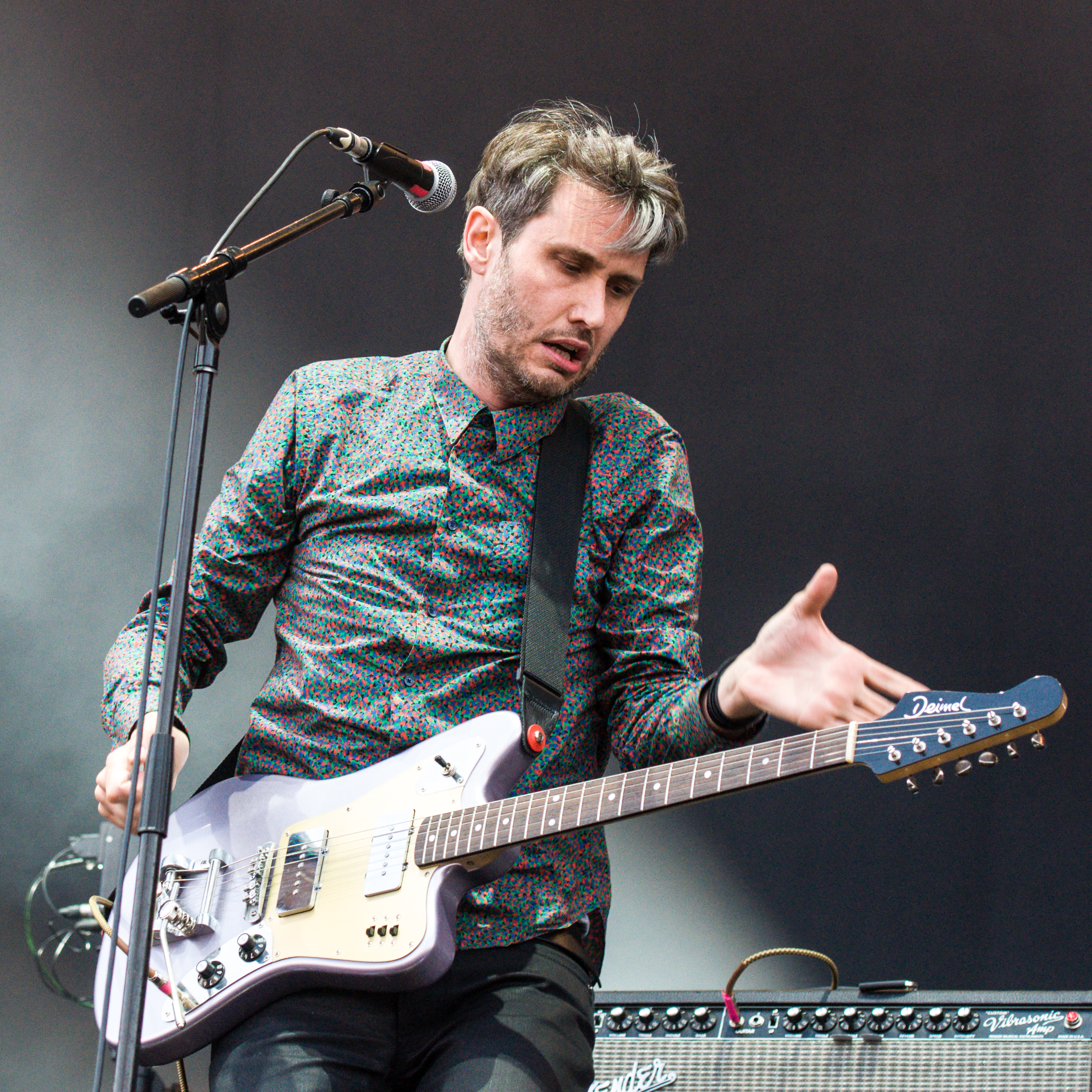 Tocotronic Sänger Dirk von Lowtzow bei Rock am Ring 2013